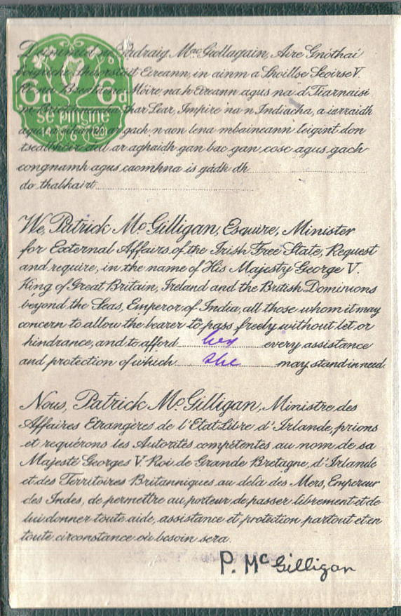 Request page of Irish Free State passport issued 5 Aug 1930. 'Request' page signed by Patrick McGilligan.